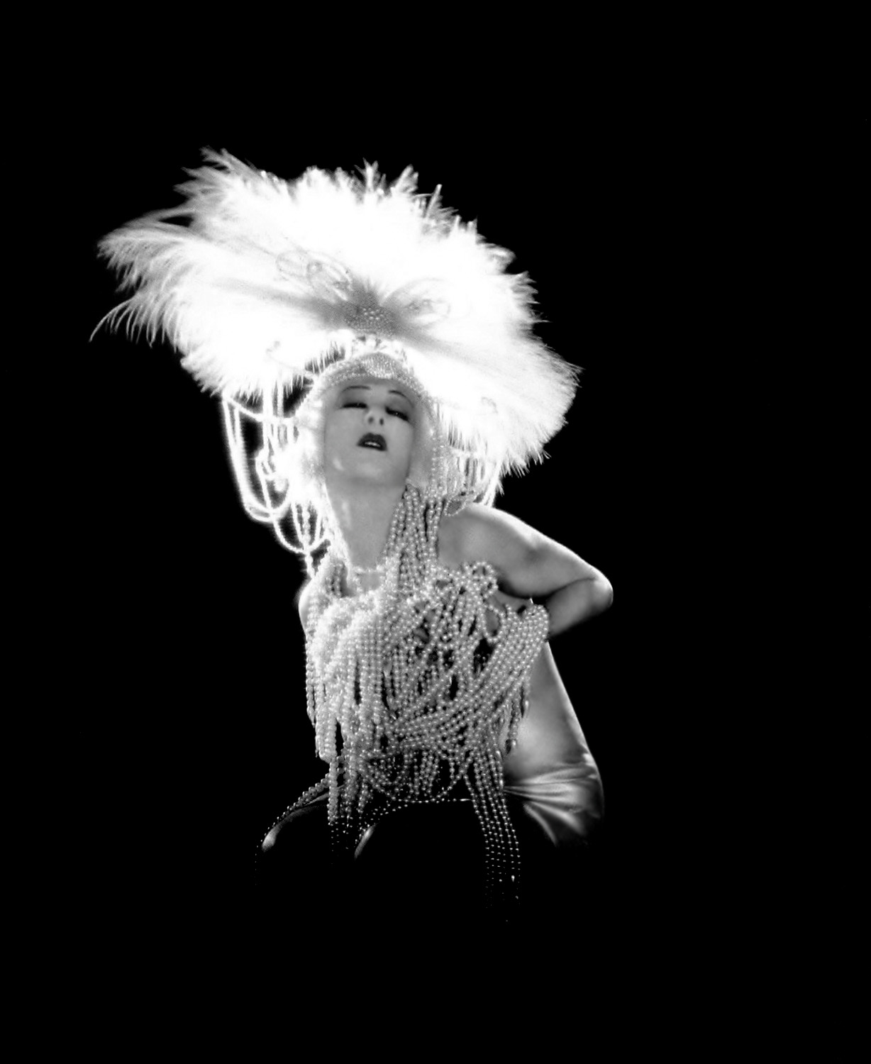 Alla Nazimova in a photo from the 1923 film Salome.